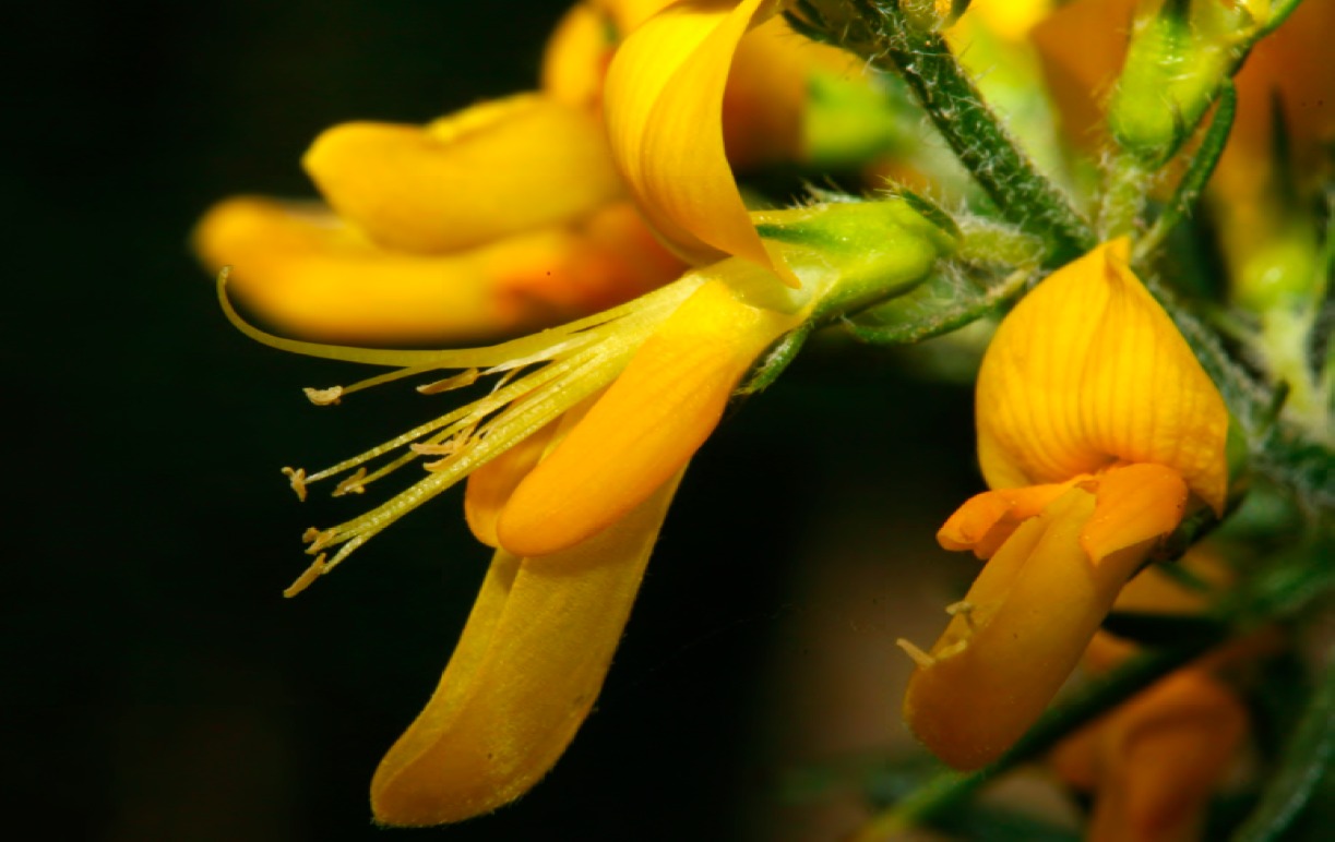 Flower